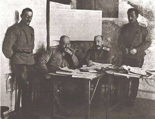 leaders of the White Russian North-Western Army